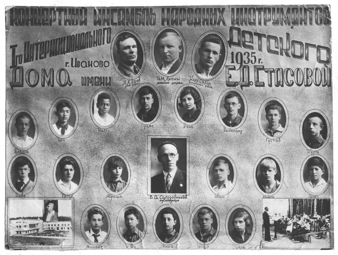 Interdom